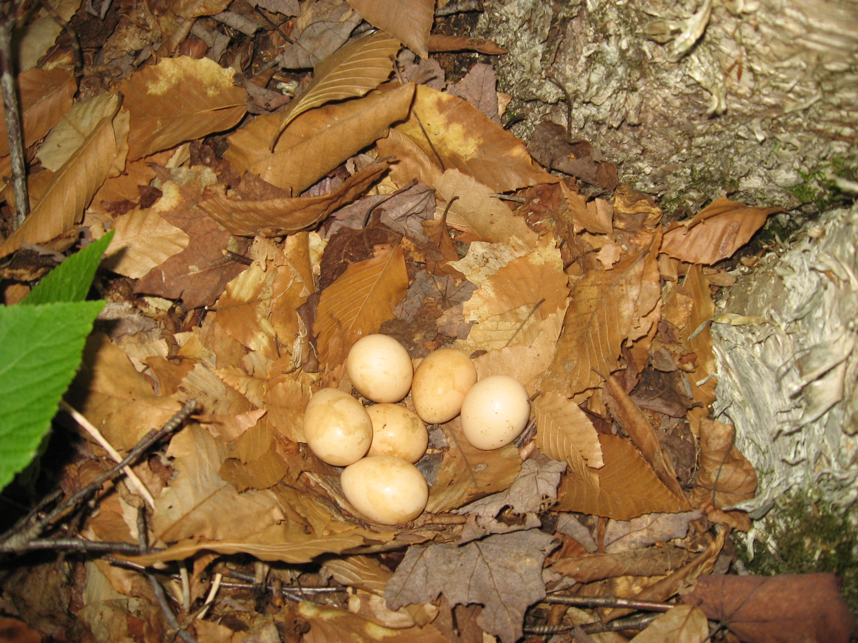 A ruffed grouse (Bonasa umbellus) nest and eggs at the Bear Brook Watershed in Maine on Lead Mountain.